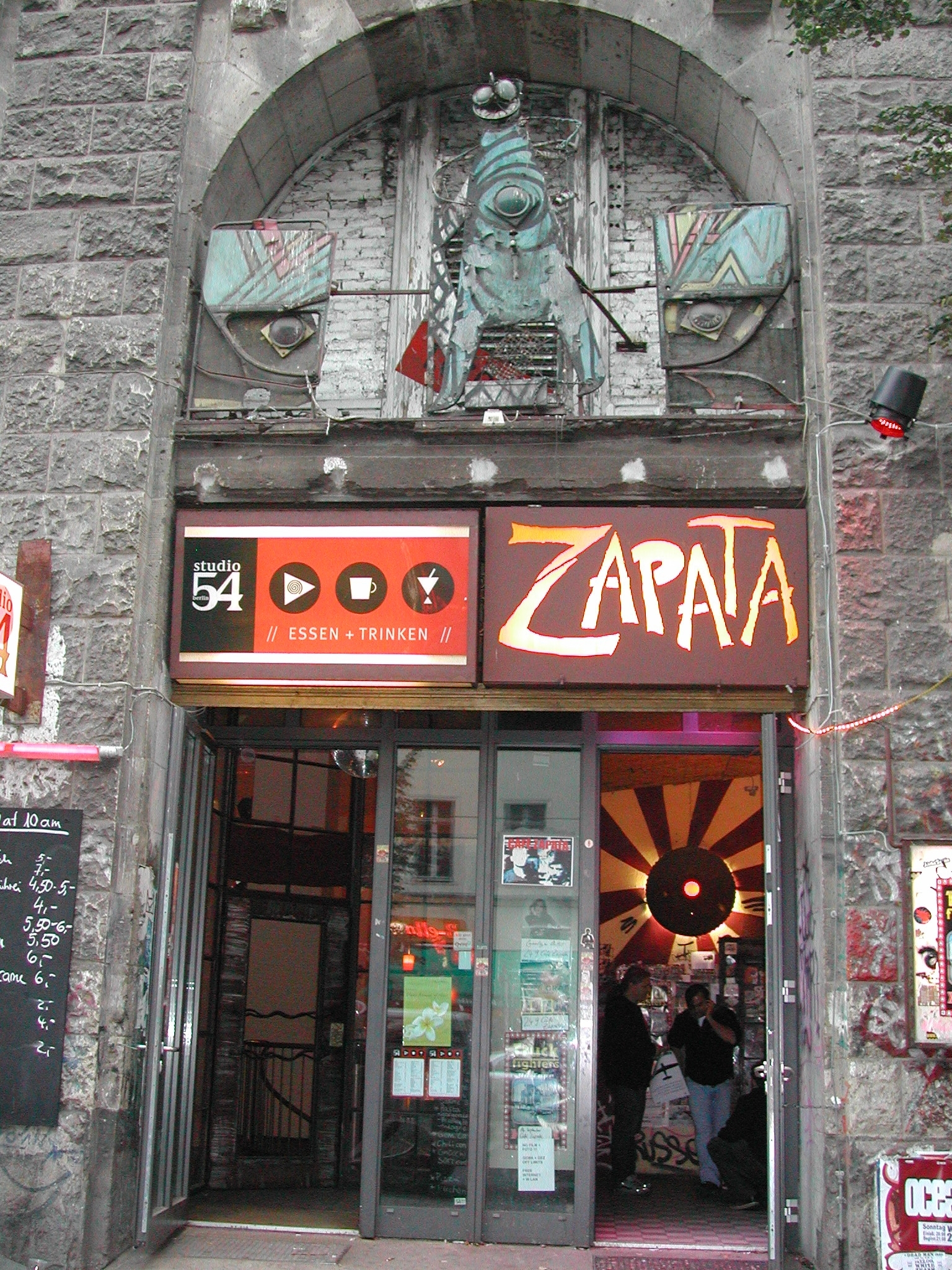 Berlin: Kunsthaus Tacheles - Tacheles Gallery: Cafe Zapata